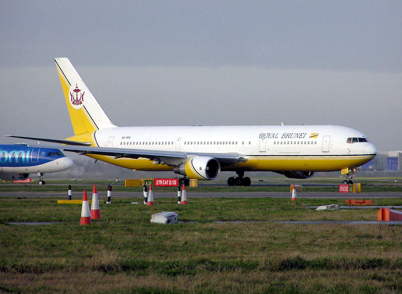 Royal Brunei Airlines Boeing 767-300 (V8-RBG) in the take-off queue at London (Heathrow) Airport.